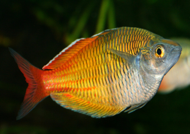 Melanotaenia boesemani (Boeseman's Rainbowfish)